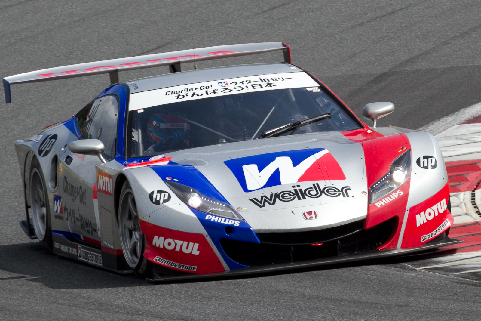 Super GT 2011 Rd.6 Fuji GT 250km: Loïc Duval (Weider Honda Racing) driving the Honda HSV-010 GT.